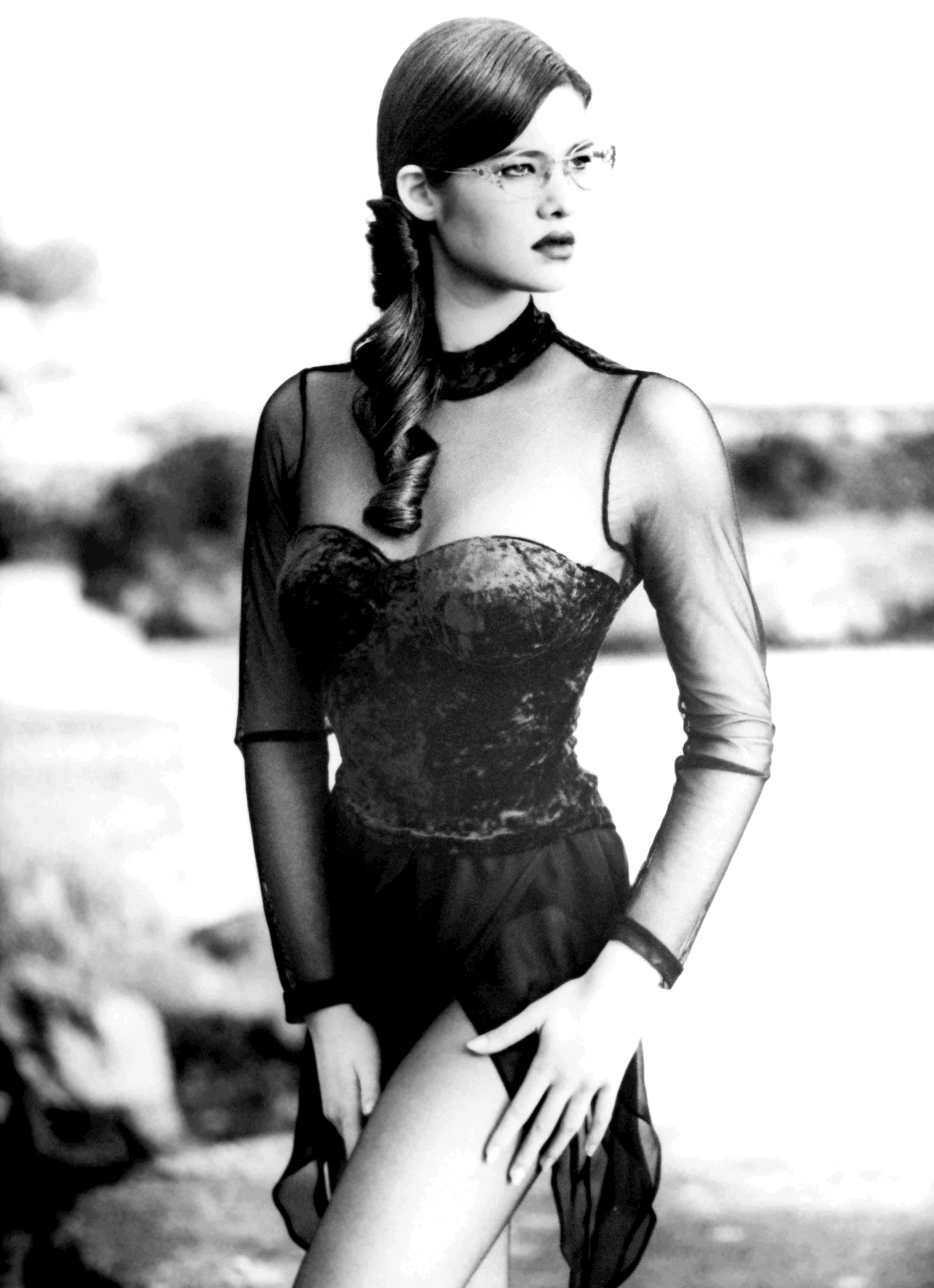 Italian showgirl and actress Manuela Arcuri in 1995